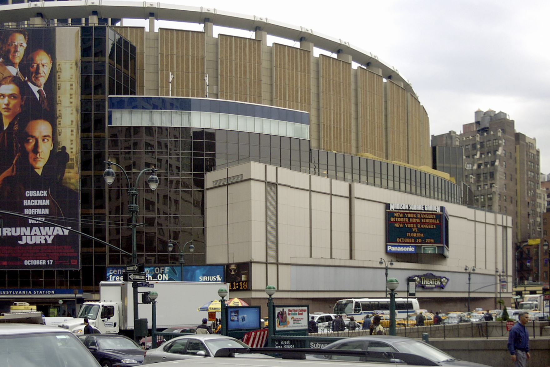 Madison Square Garden in New York.